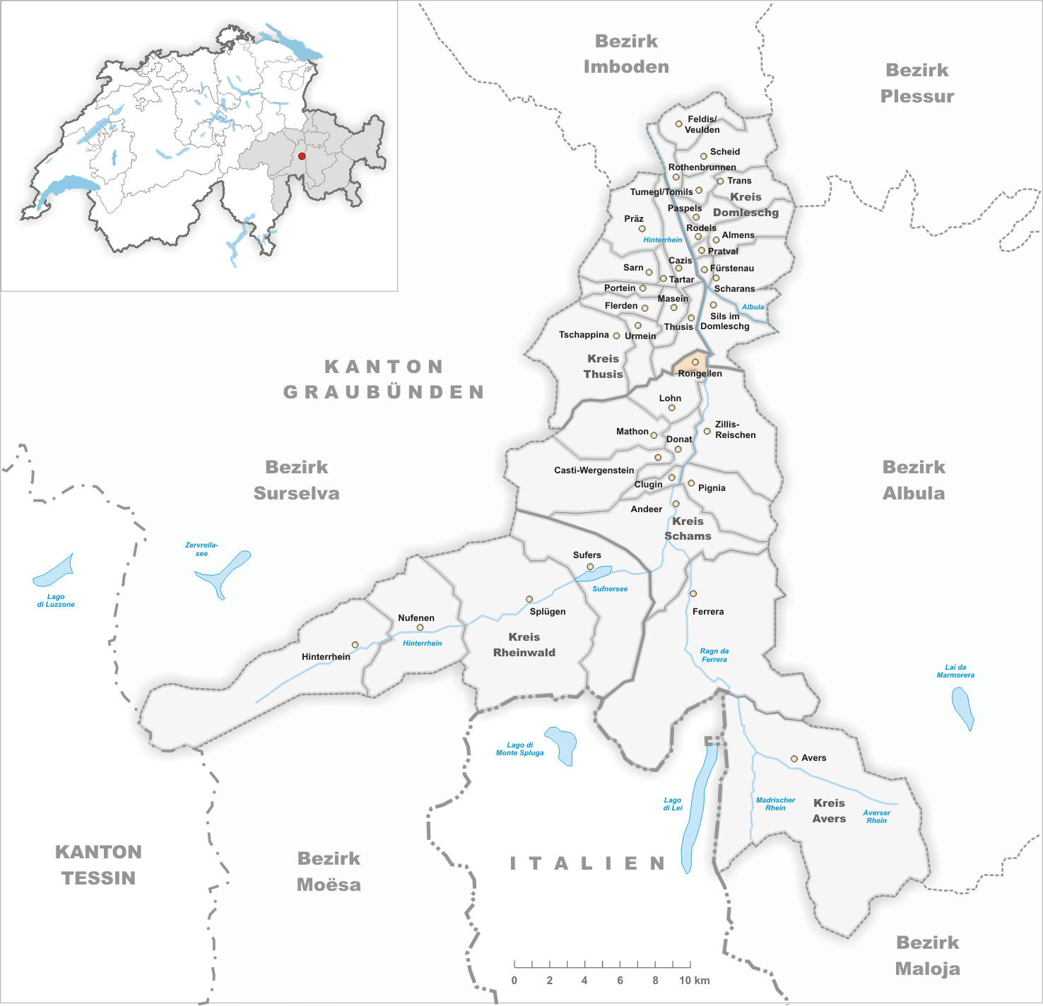 Municipality Rongellen